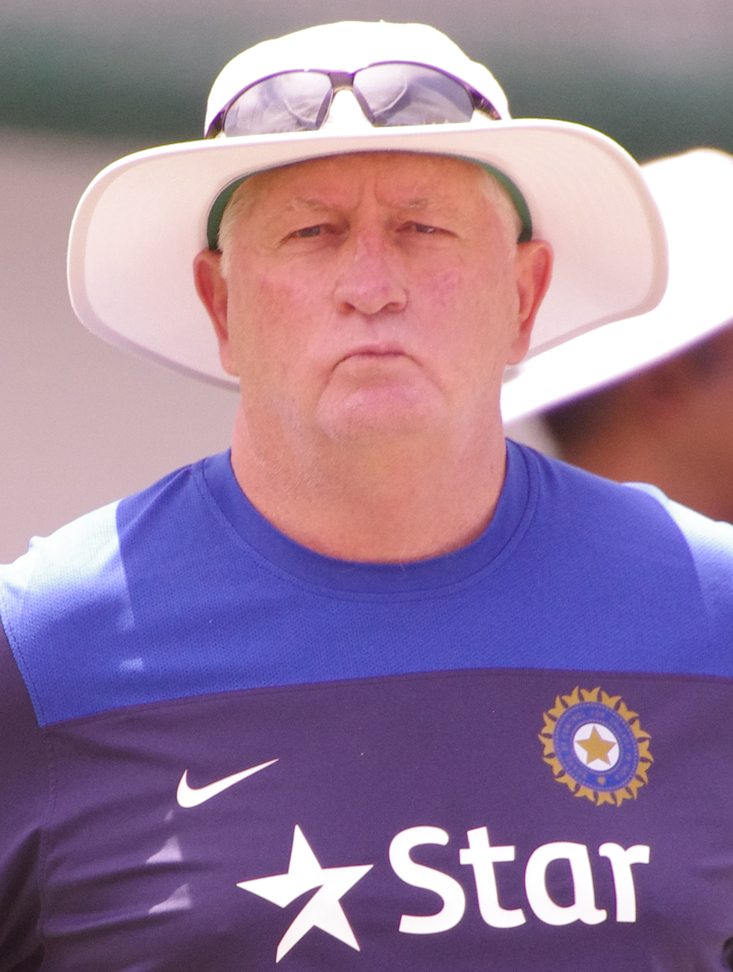 DUNCAN FLETCHER at the Sydney Cricket Grounds, January 2015